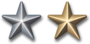 The award star ribbon device (silver and gold). The award star is a decoration issued to personnel of the United States Navy, Marine Corps, and Coast Guard in lieu of multiple awards of the same award.